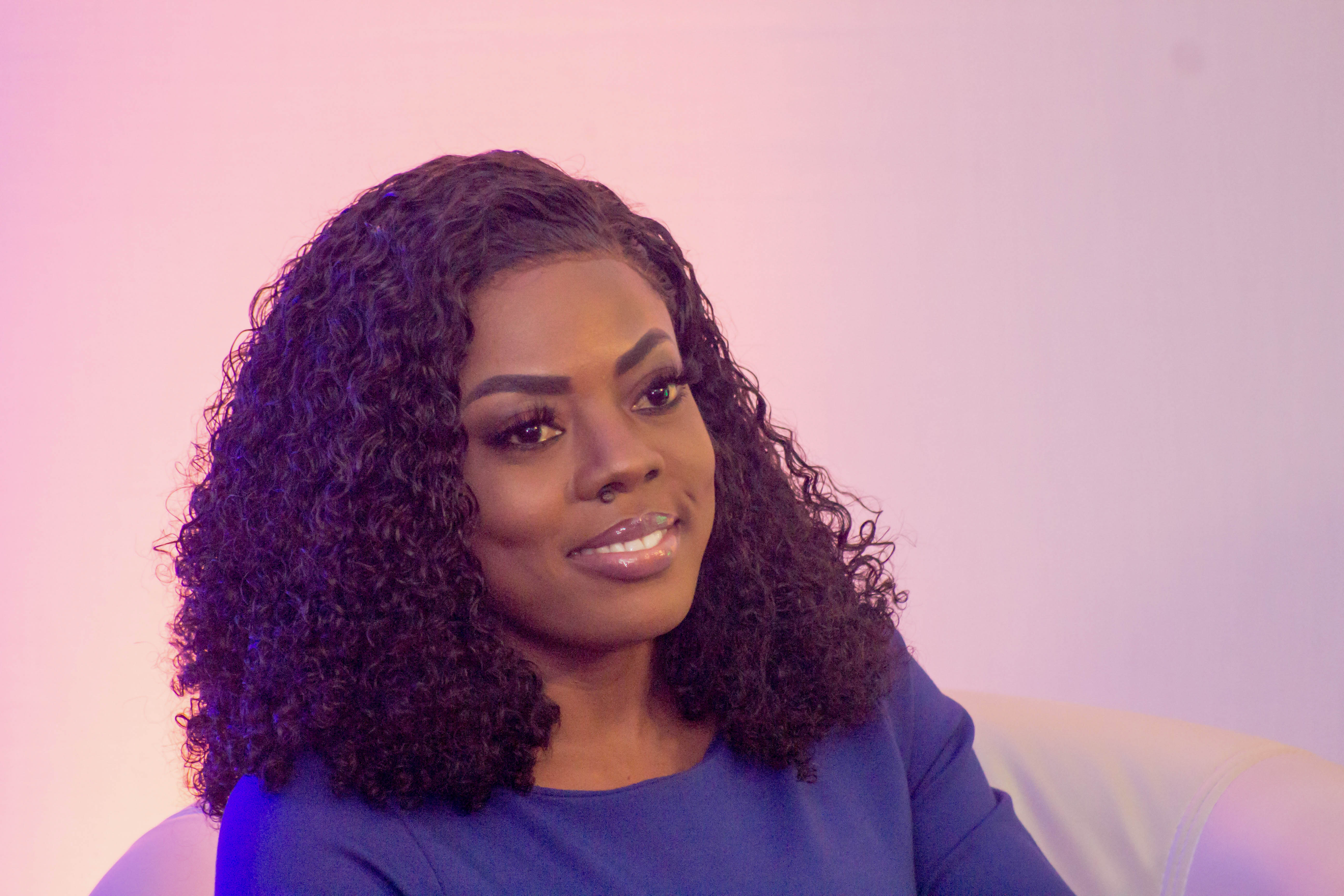 Speaker at the Africa Women's Sports Summit. This summit is the first Women's Sports Summit to be organised in Ghana.